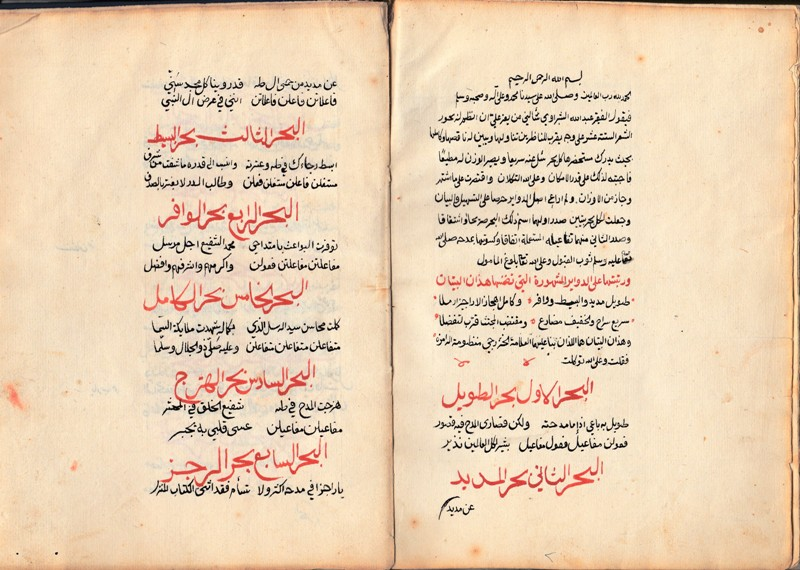 Old Manuscript in the Arabian poetry Beher, by Sheikh Abdullah Al-Shabrawi, and written by Qasim Effendi al mufti in 1841, page 1, 2